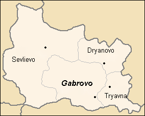 A map of the municipalities of Gabrovo Province made by Taushanov from the Bulgarian Wikipedia